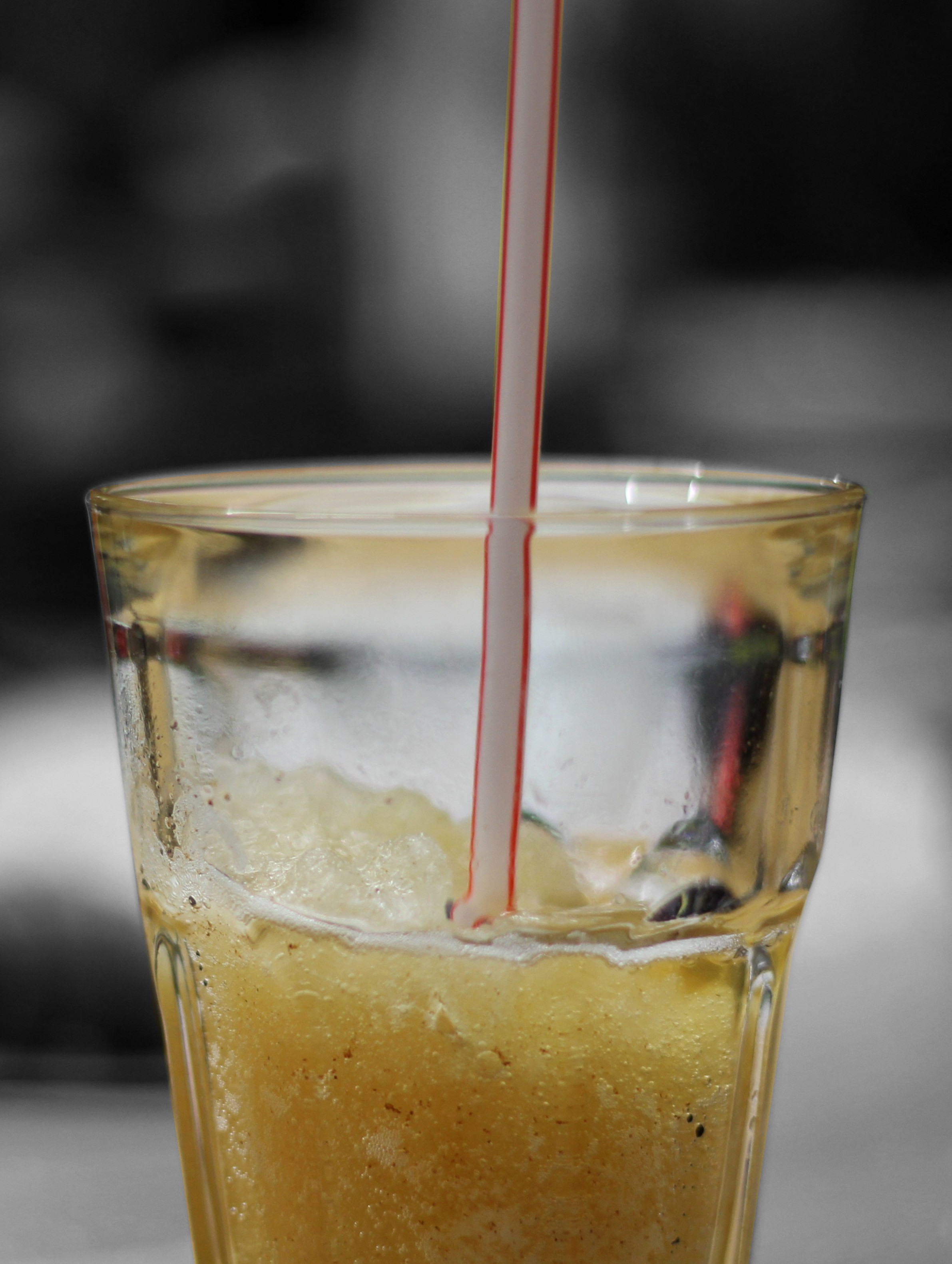 Slush in a glass